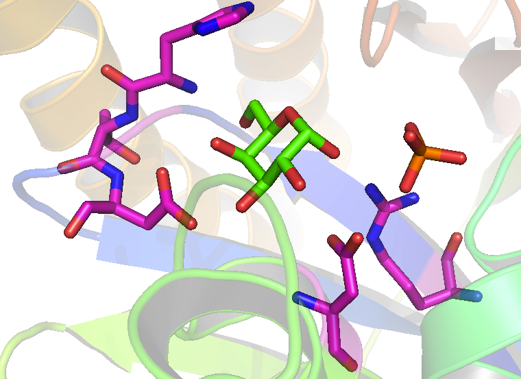 Crystal structure of galactokinase active site with substrates.